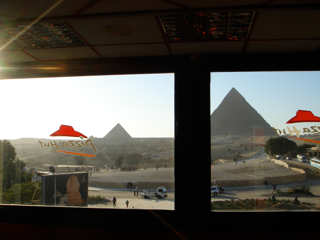 A Pizza Hut restaurant near the pyramids in Gizah, Egypt